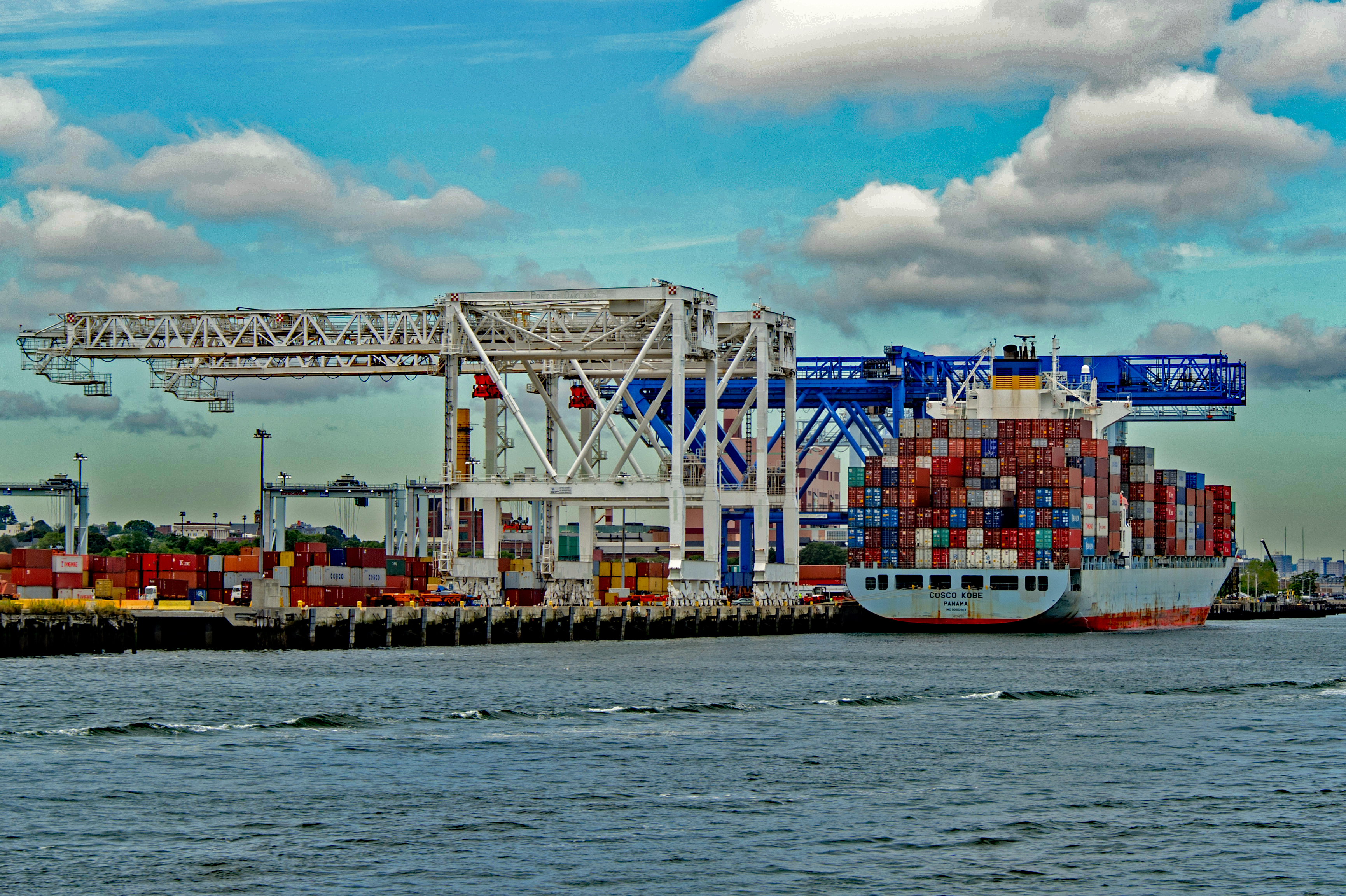 A container ship unloads at Conley Terminal in South Boston